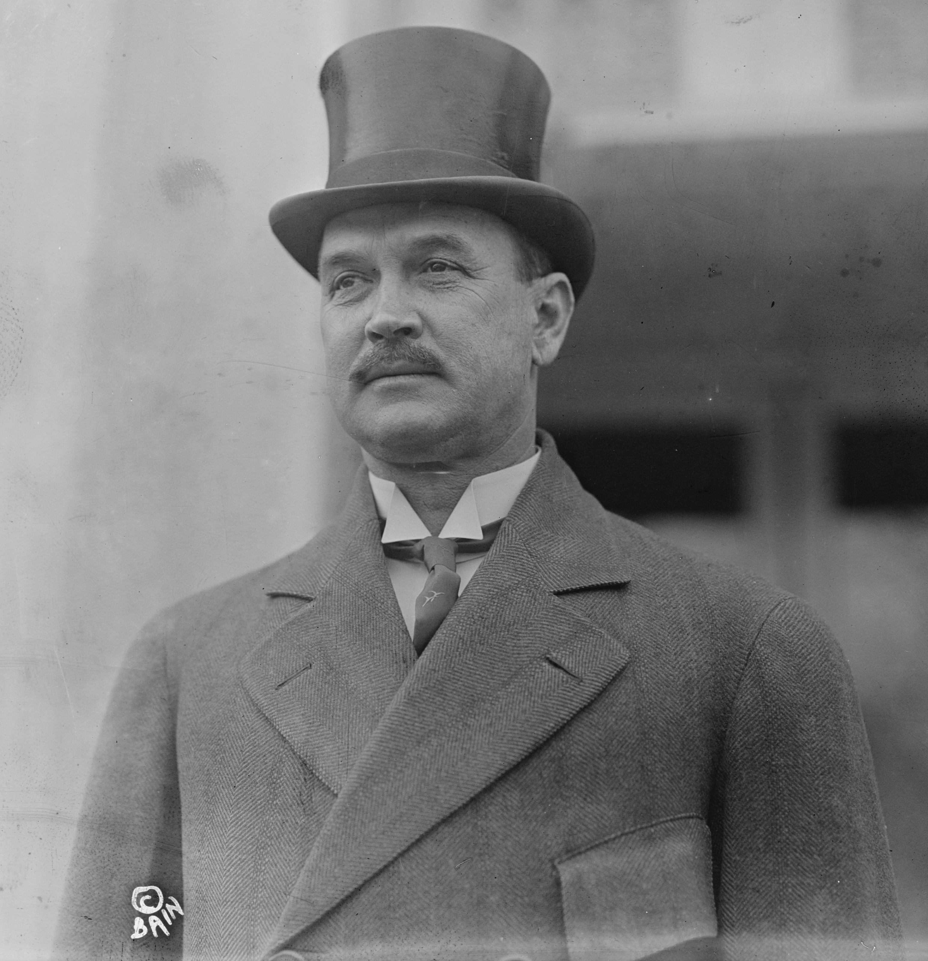 David Franklin Houston (February 17, 1866 – September 2, 1940) was an American academic, businessman and politician.